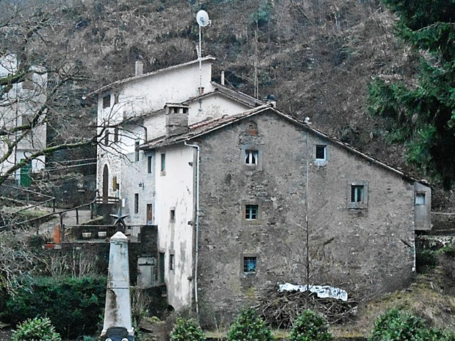 the village